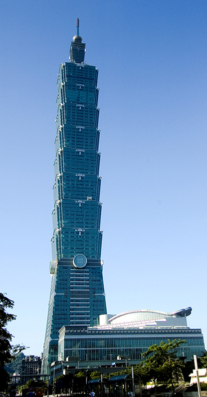 Portrait image of Taipei 101 from Songzhi Road, Taipei, Taiwan. For earthquake and wind protection, the building is equipped with the tuned mass damperBân-lâm-gú: Uì Tâi-uân Tâi-pak-tshī Siông-tì-lōo khuànn ê Tâi-pak 101. Uī-tio̍h hông tē-tāng, I ū siat tiâu tsit tsóo-nî-khì(tuned mass damper). 對臺灣臺北市松智路看的台北101，為著防地動，伊有設調質阻尼器(tuned mass damper)。